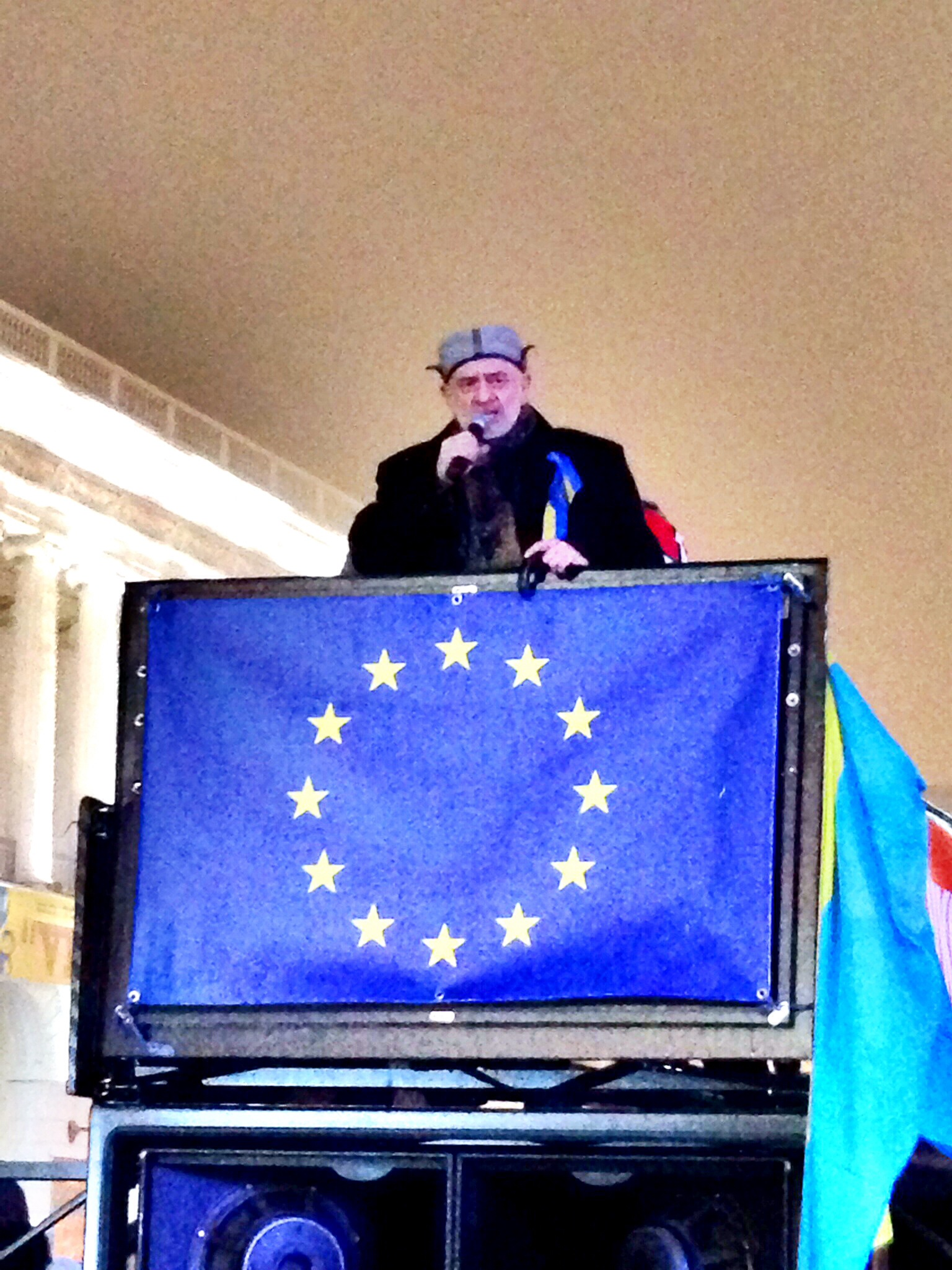 Alexander Roitburd on Euromaidan